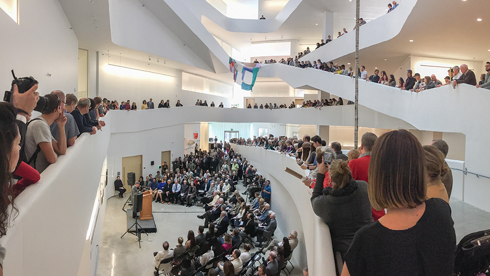 Interior of the University of Iowa Visual Arts Building during the dedication.